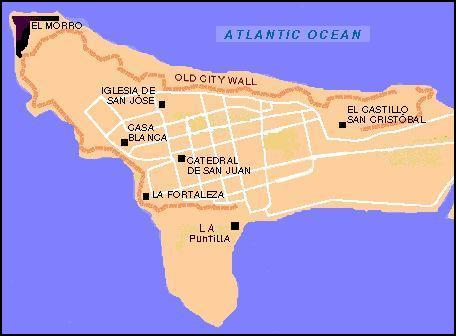 Area in Old San Juan, Puerto Rico where Captain Juan de Amezquita fought the Dutch and Captain Balduino Enrico in the Battle of San Juan of 1625.